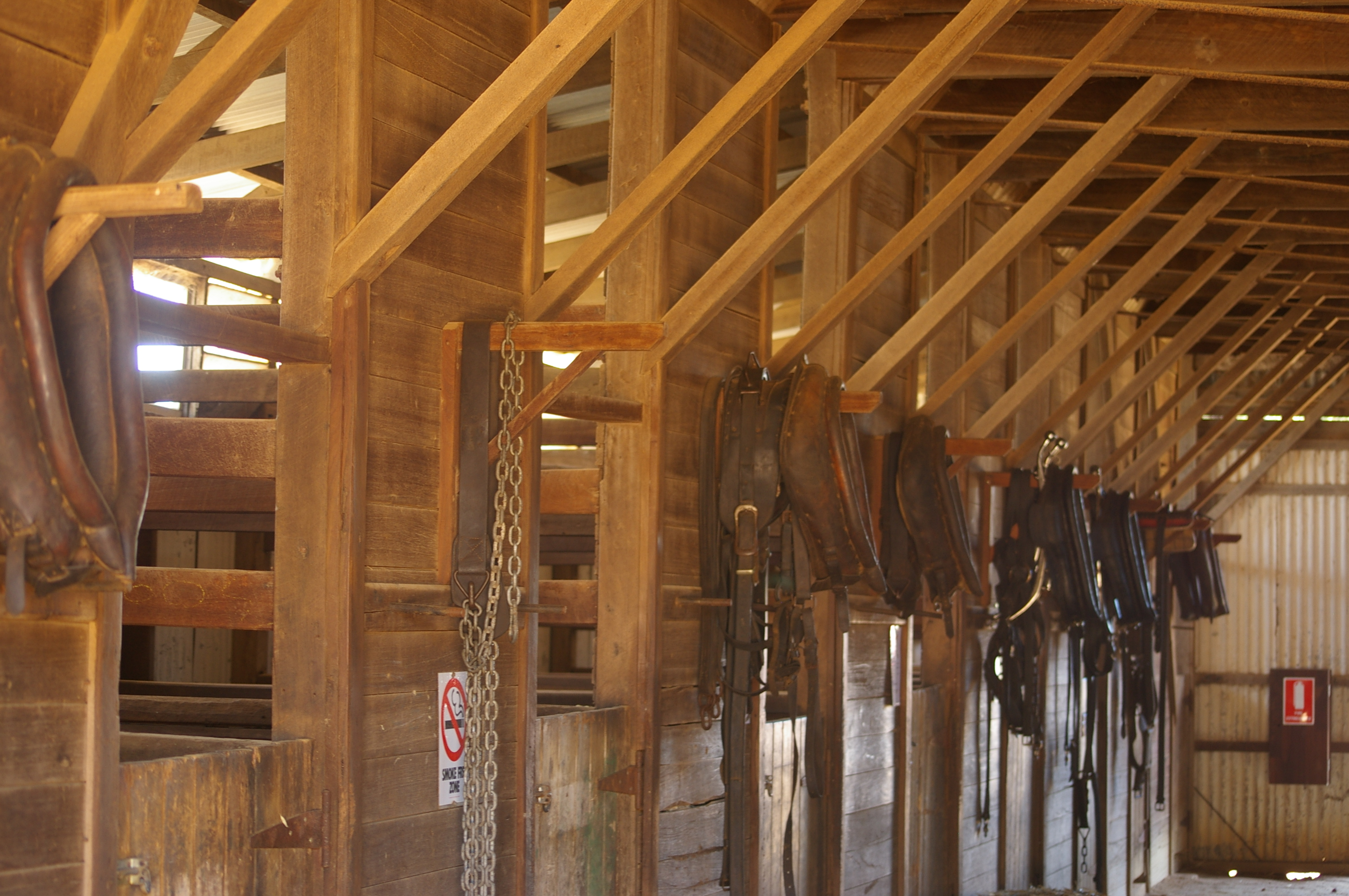 Taken on the Avondale Agricultural Reasearch Station Internal of the heritage listed stables c1890, hanging on the peg outside each stall are harnesses worn by the Clydesdales while working